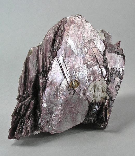 Lepidolite Locality: Minas Gerais, Southeast Region, Brazil (Locality at ) Size: 14.5 x 10.6 x 6.7 cm. You usually think of lepidolite as a humble accenting mineral, in little blooms or microcrystals on tourmaline specimens, for example. But here is an unusual example of a cabinet-sized specimen of lepidolite alone! It is a large, extremely thick "book" of hundreds of thin layers of this pretty lavender-colored mica variety.